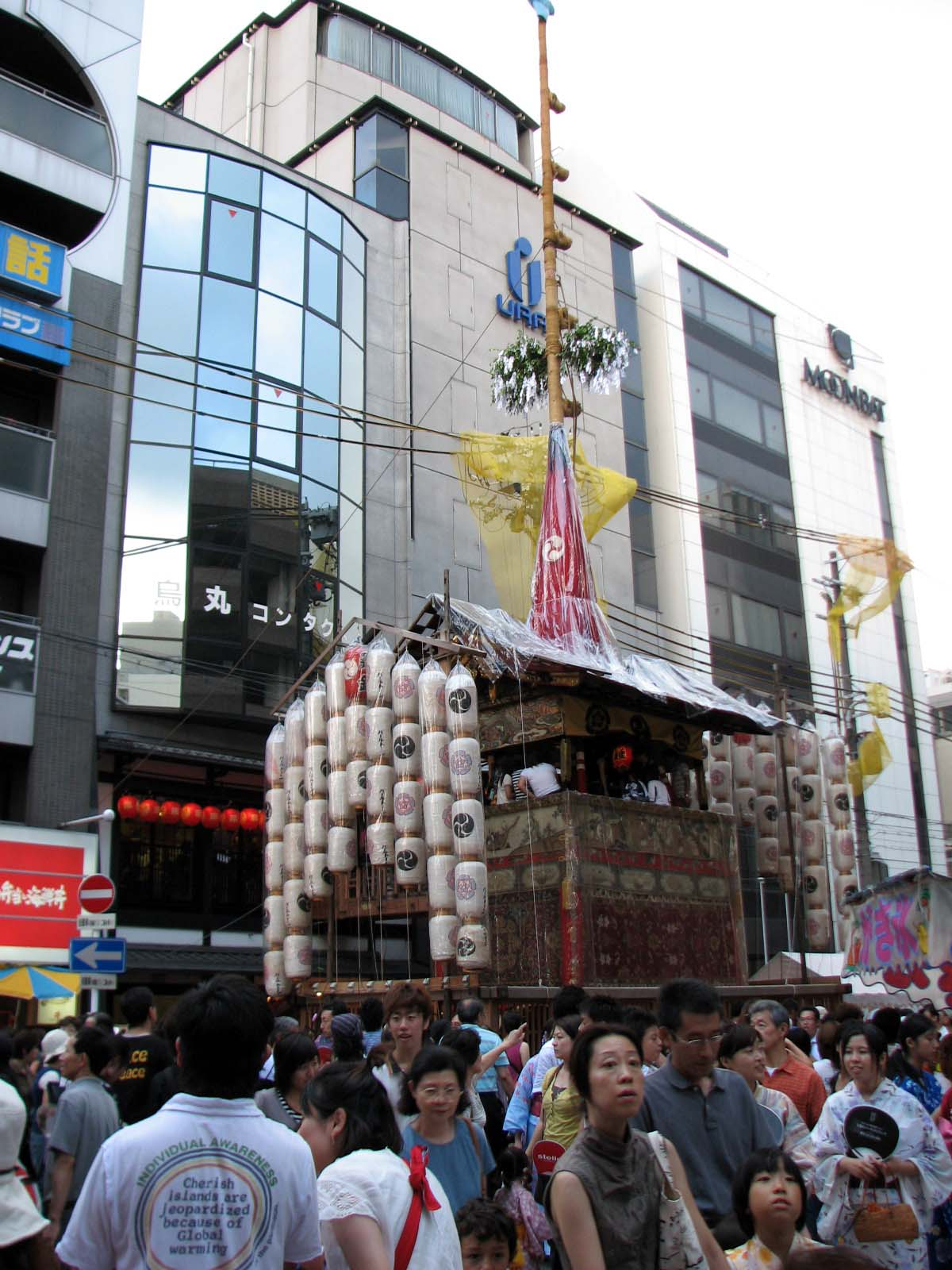 description:Niwatoriboko float, one of the first to begin the parade. At the top, festival-goers take turns getting on the float through a side building. photographer: Chris Gladis photographer location:Kyoto, Japan flickr_url: [1]